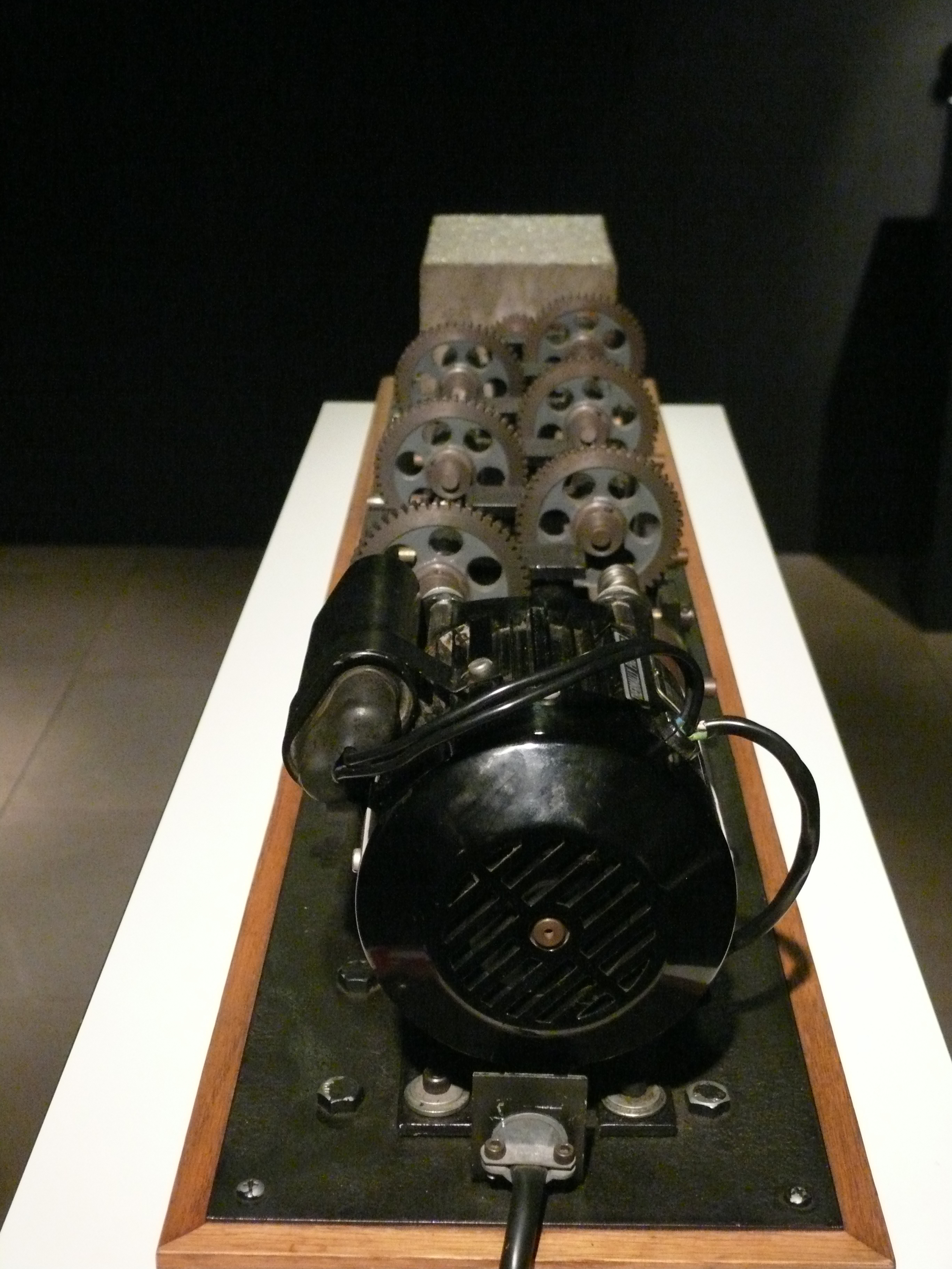 "Machine with Concrete" by Arthur Ganson in Art Electronica Museum of Future